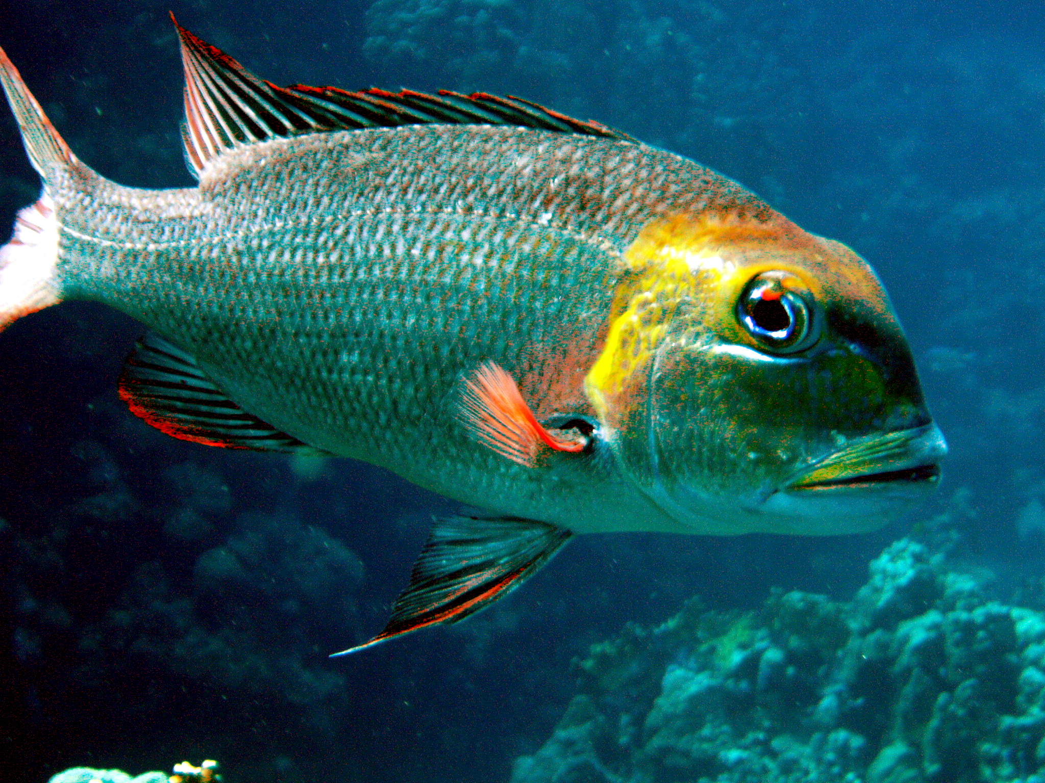 Monotaxis grandoculis, Al-Qusair Egypt